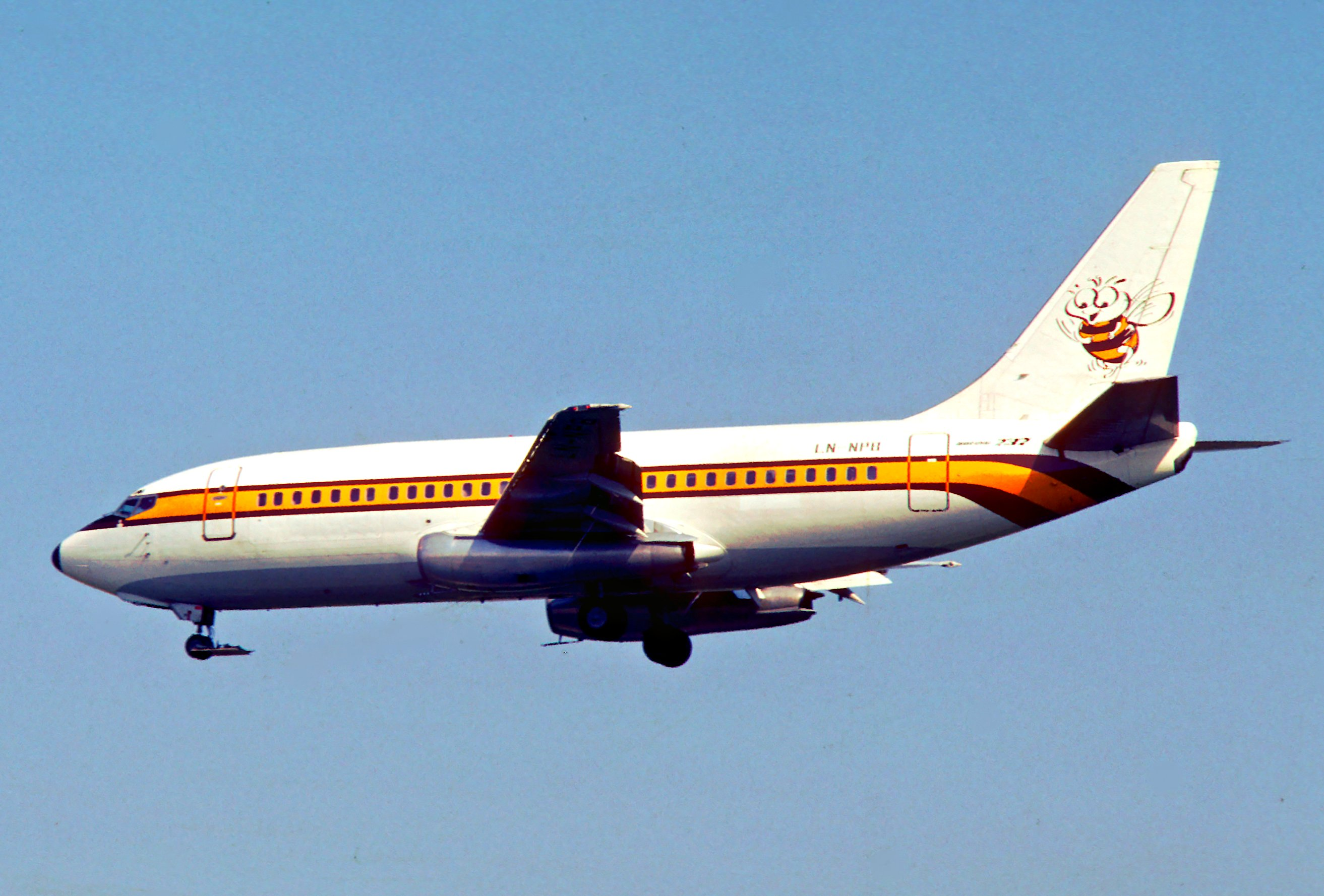 First flight: April 25, 1979... 12/12/1979 Busy Bee of Norway LN-NPB 20/02/1991 Wien Air LN-NPB 13/05/1991 Aloha Airlines N801WA 01/06/1992 GAC N401MG 01/10/1993 Sahara India Airlines VT-SIA plane destroyed operating a Sahara India Airlines flight at Delhi, India on 1994-03-08